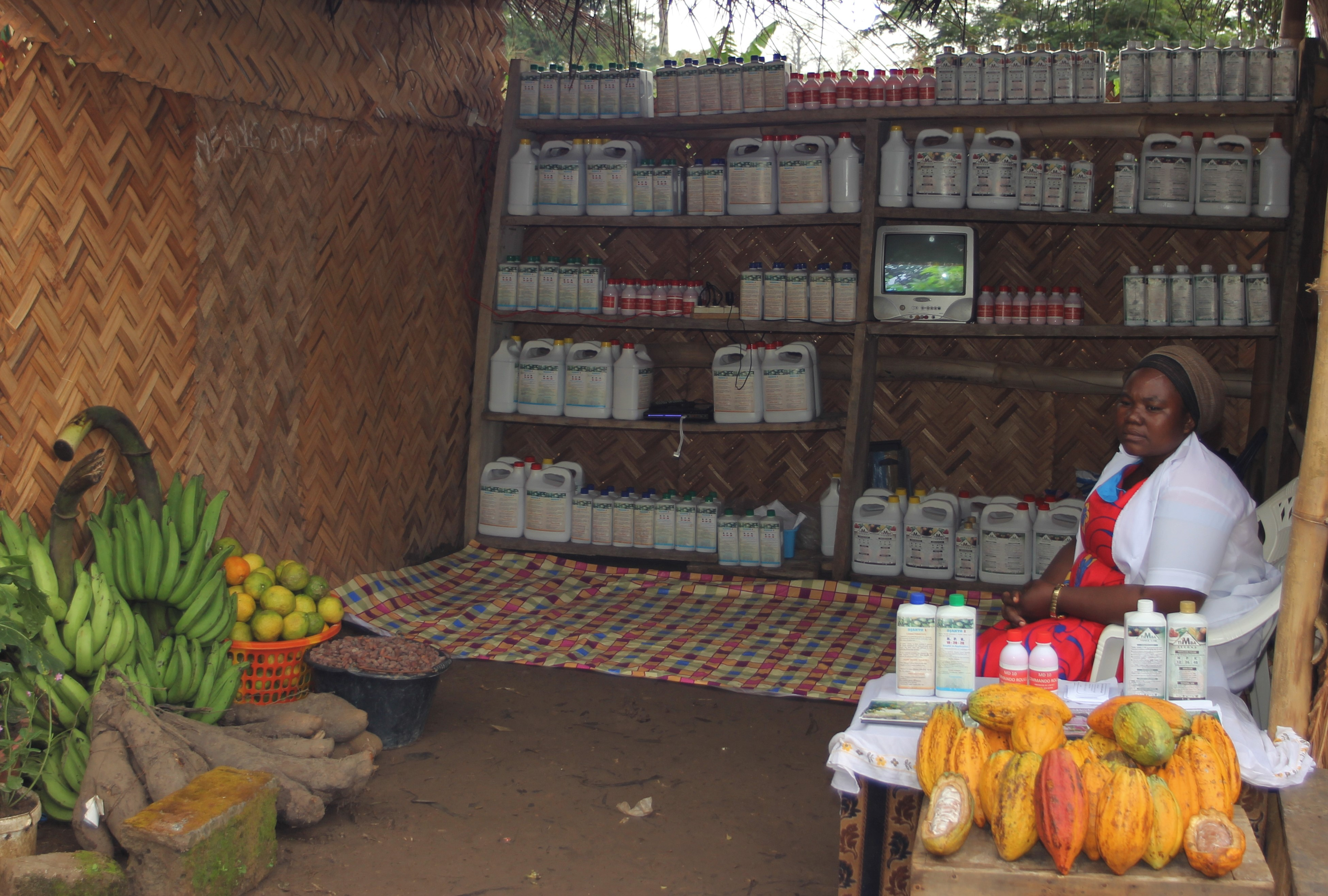 The lady transforms raw cocoa beans into a variety of cosmetics products sold in her booth at a fair in Bafia This is an image of "African people at work" from Cameroon